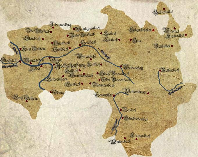 Management area of the bavarian Bezirksamt Aschaffenburg and the independent city Aschaffenburg in 1875. Traced from the Topographischer Atlas vom Königreiche Baiern diesseits des Rhein Blatt: 17. Aschaffenburg